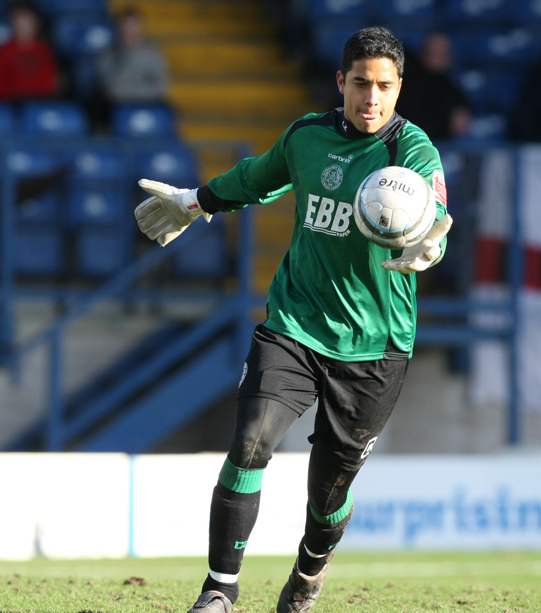 Mikhael in action